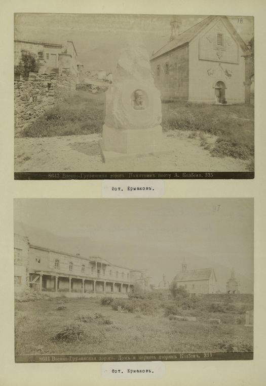 Georgian Military Road; Monument to poet A. Kazbegi and House and church at Qazbegi's yard.